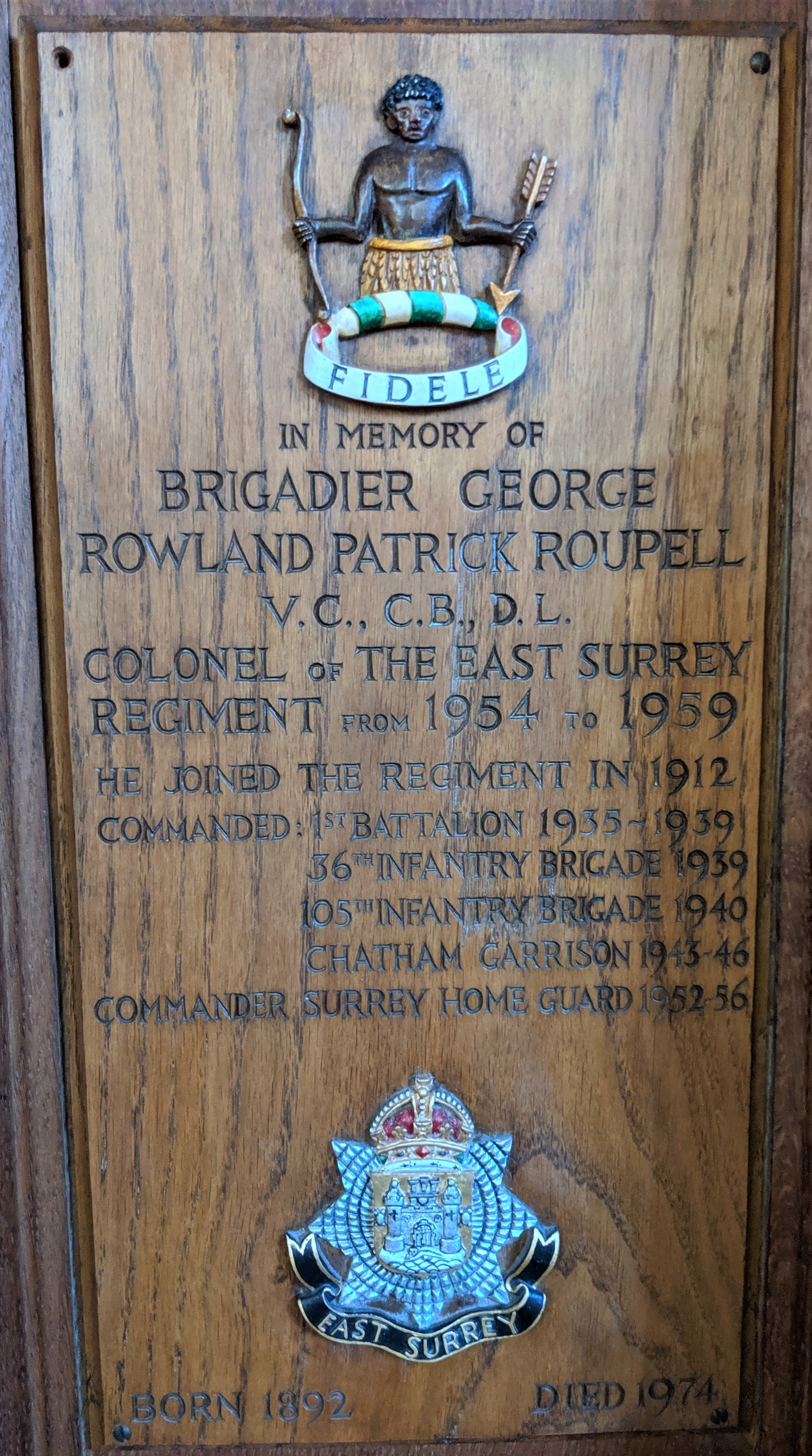 Plaque to Brigadier George Rowland Patrick Roupell VC in East Surrey Regiment chapel, All Saints Church, Kingston upon Thames, Surrey